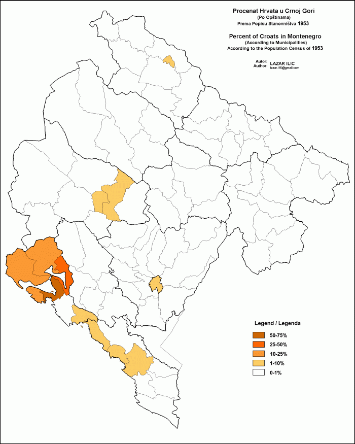 Ethnic map of Montenegro showing percent of Croats in municipalities for the year 1953.